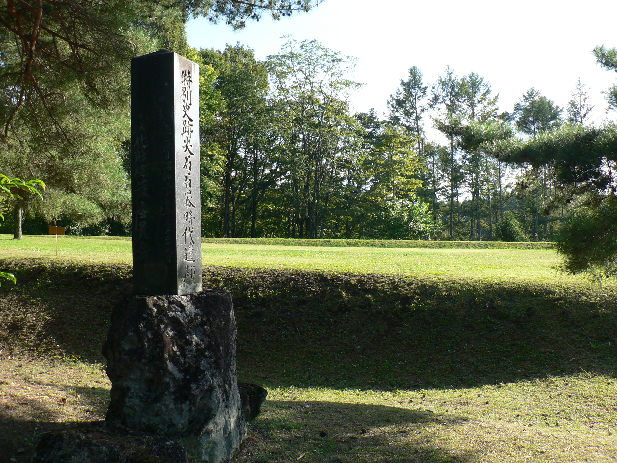 Togariishi site, Nagano, Japan. Jomon Period ruins